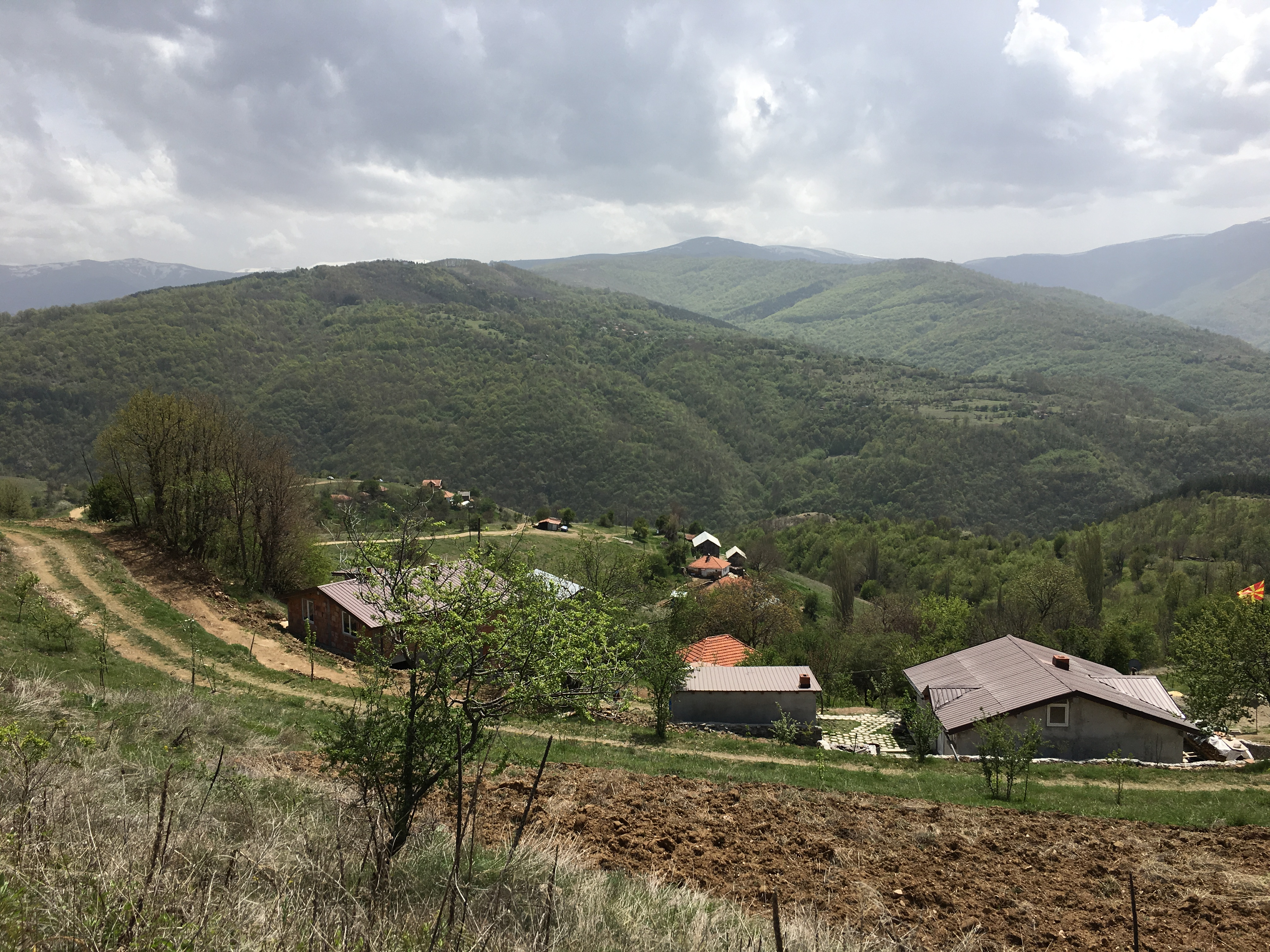 A view of the village of Drenje